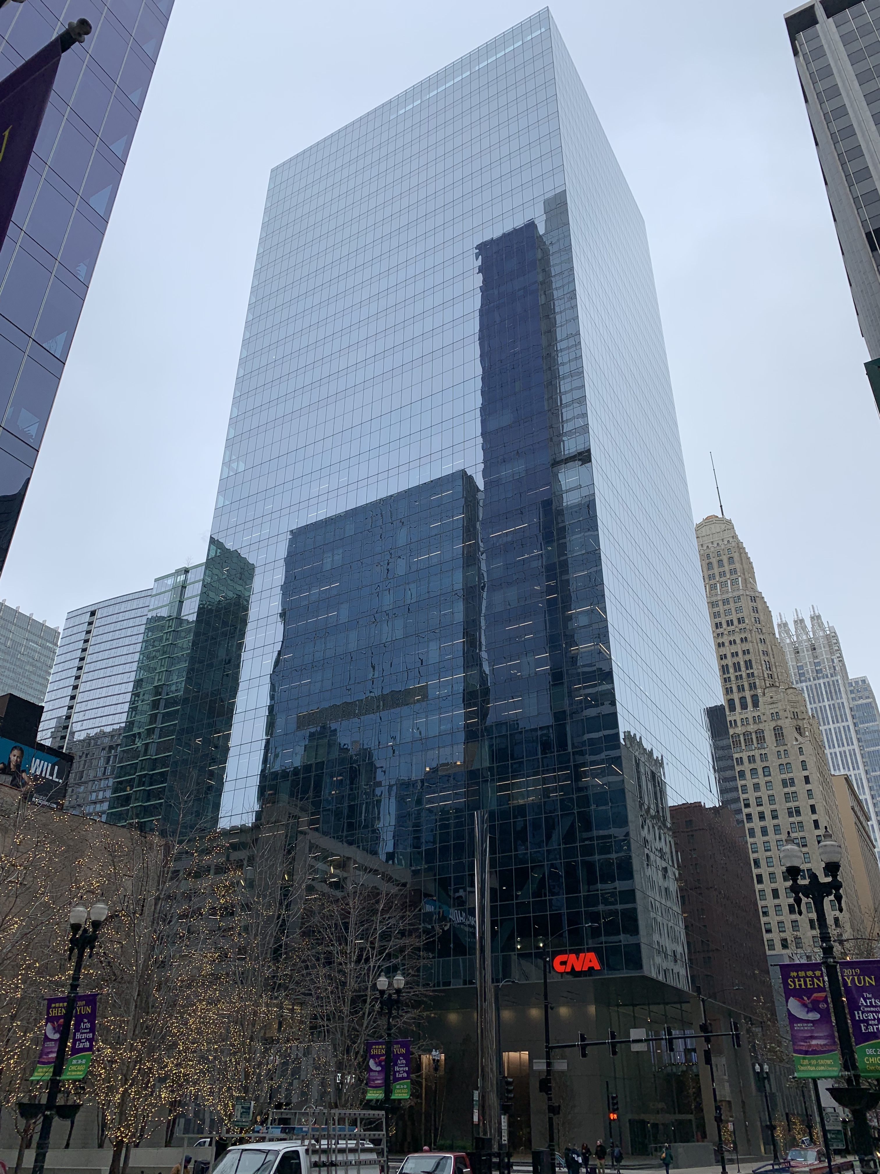 View of w:151 North Franklin looking northward from the south side of Randolph Street